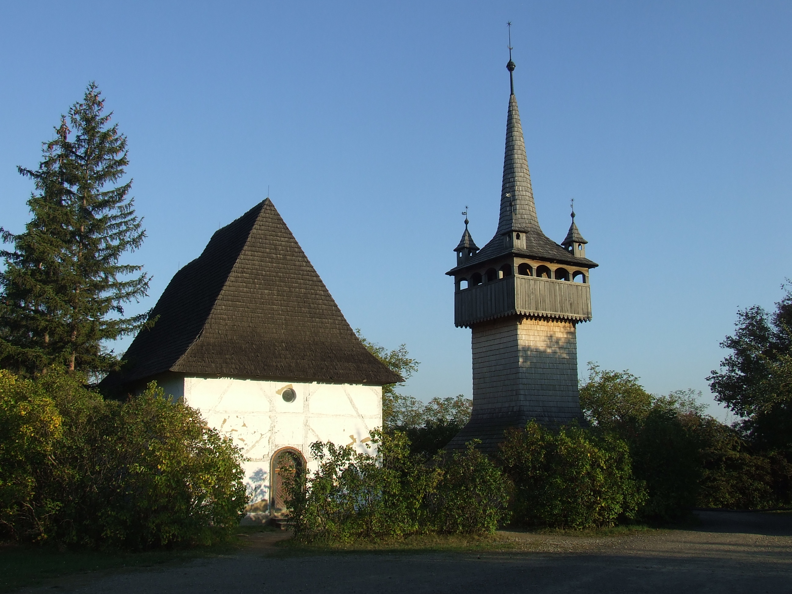 Szentendre, Skanzen